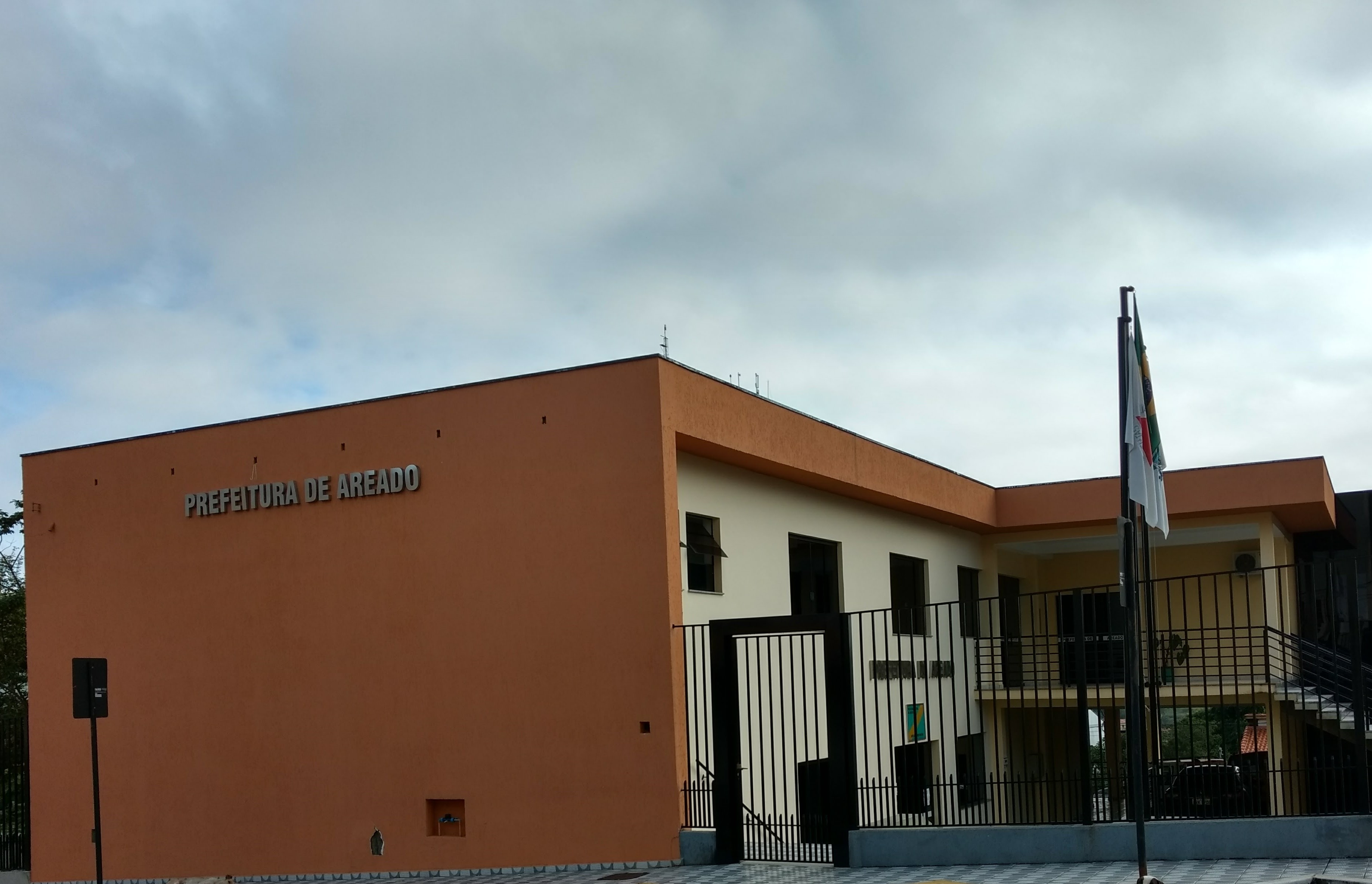 City hall of Areado, Minas Gerais, Brazil